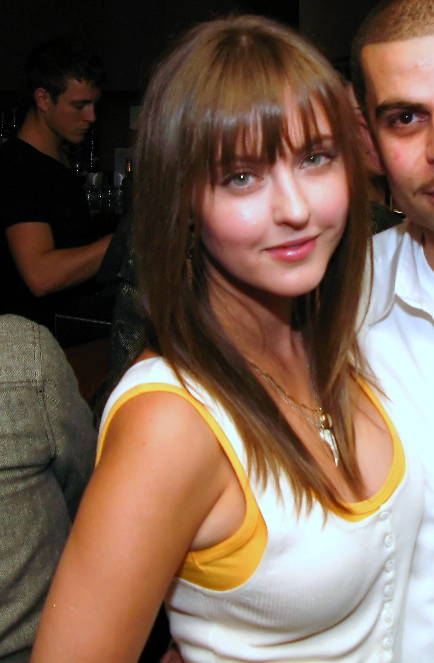 Katharine Isabelle - Favourite People List premiere at 1181 on Davie Street - read more at